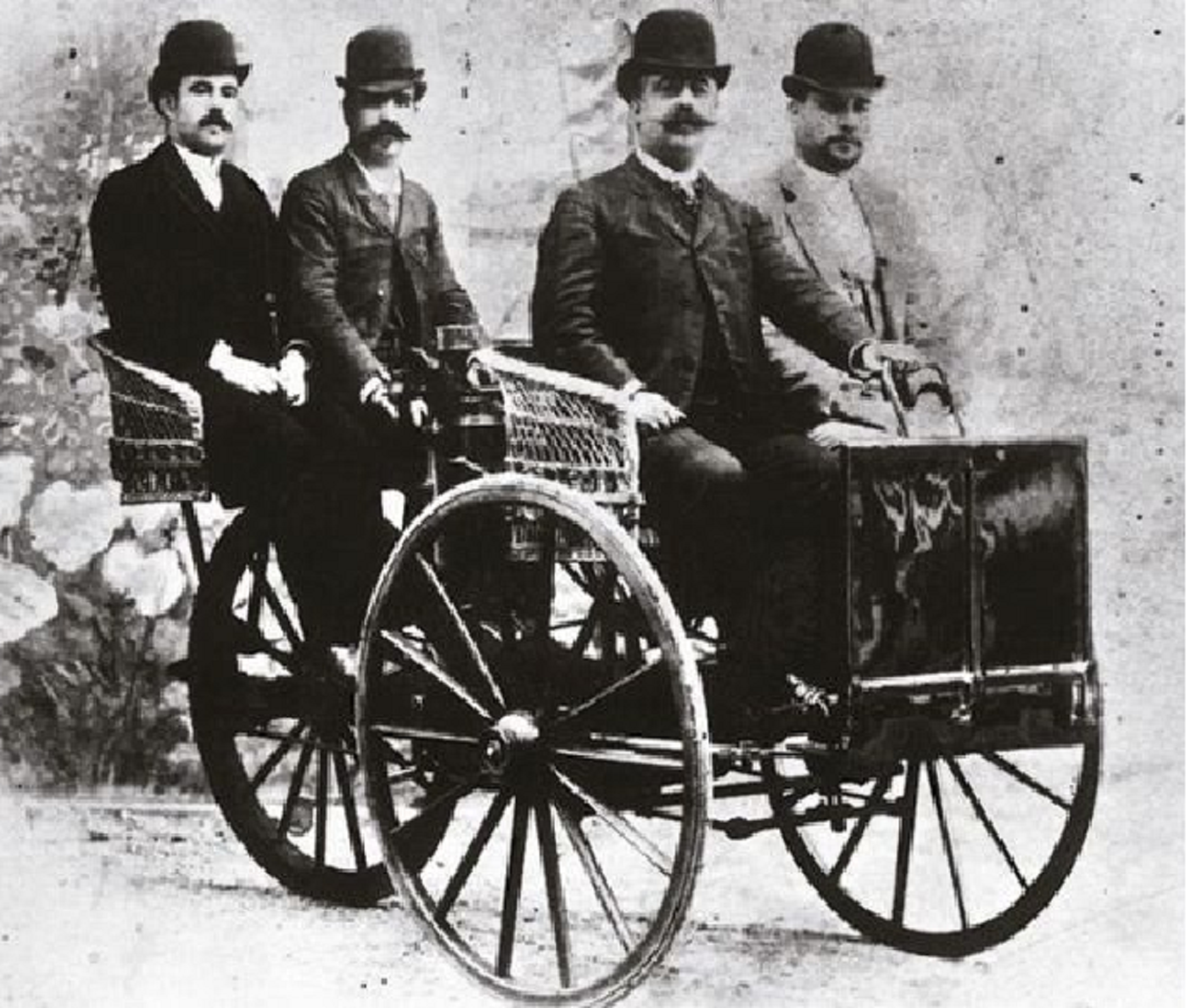 Francesc Bonet i Dalmau taking a walk on his tricicle Bonet by 1890 in Barcelona (Catalonia)